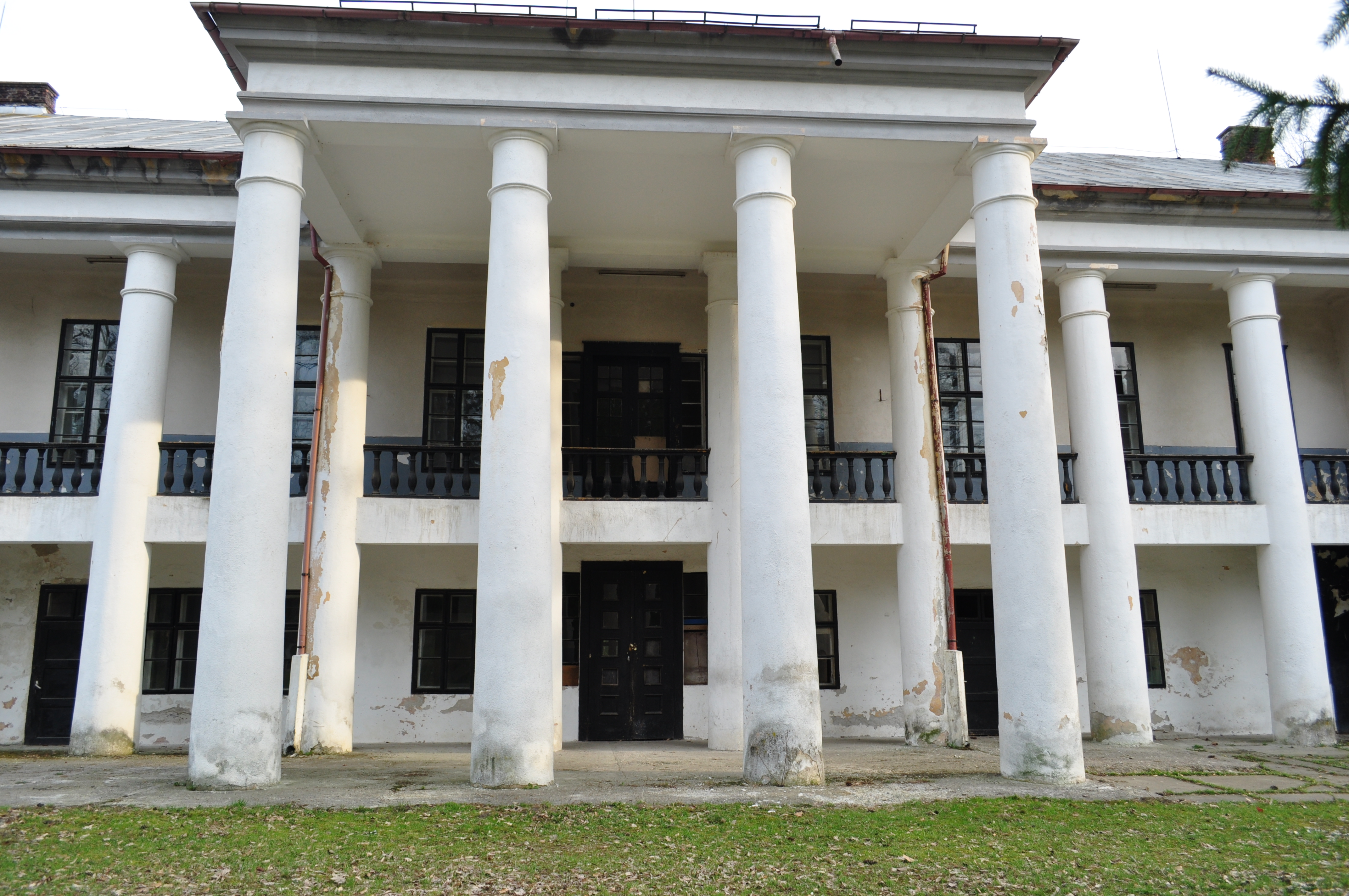 Salbek castle, Petriș, Arad county 01